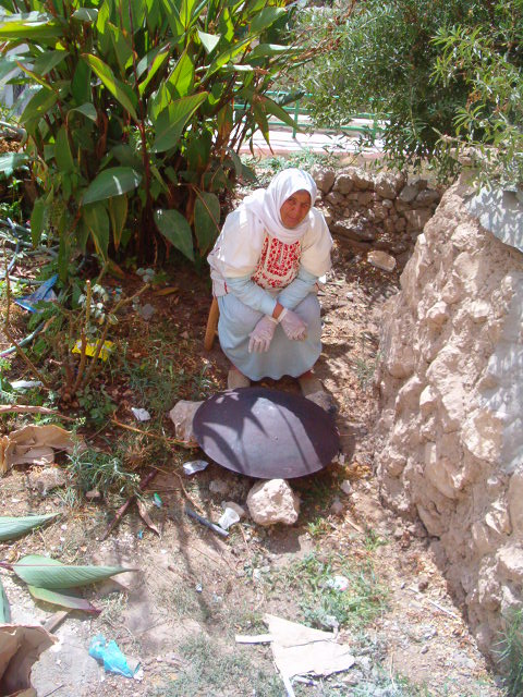 Mouths of visitors water as the smell of the bread this woman is baking on the saj, waft their way. The saj is a concave oven on which delicious, enormous, thin rounds of bread are made to be consumed on the spot.